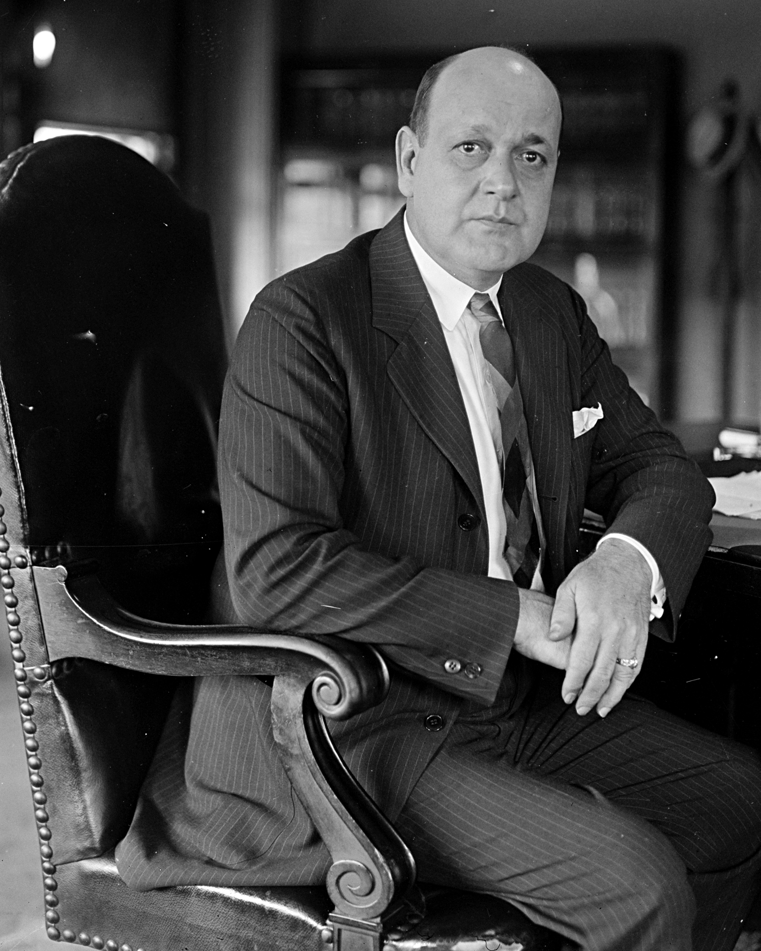 Oscar R. Luhring, US Representative from Indiana